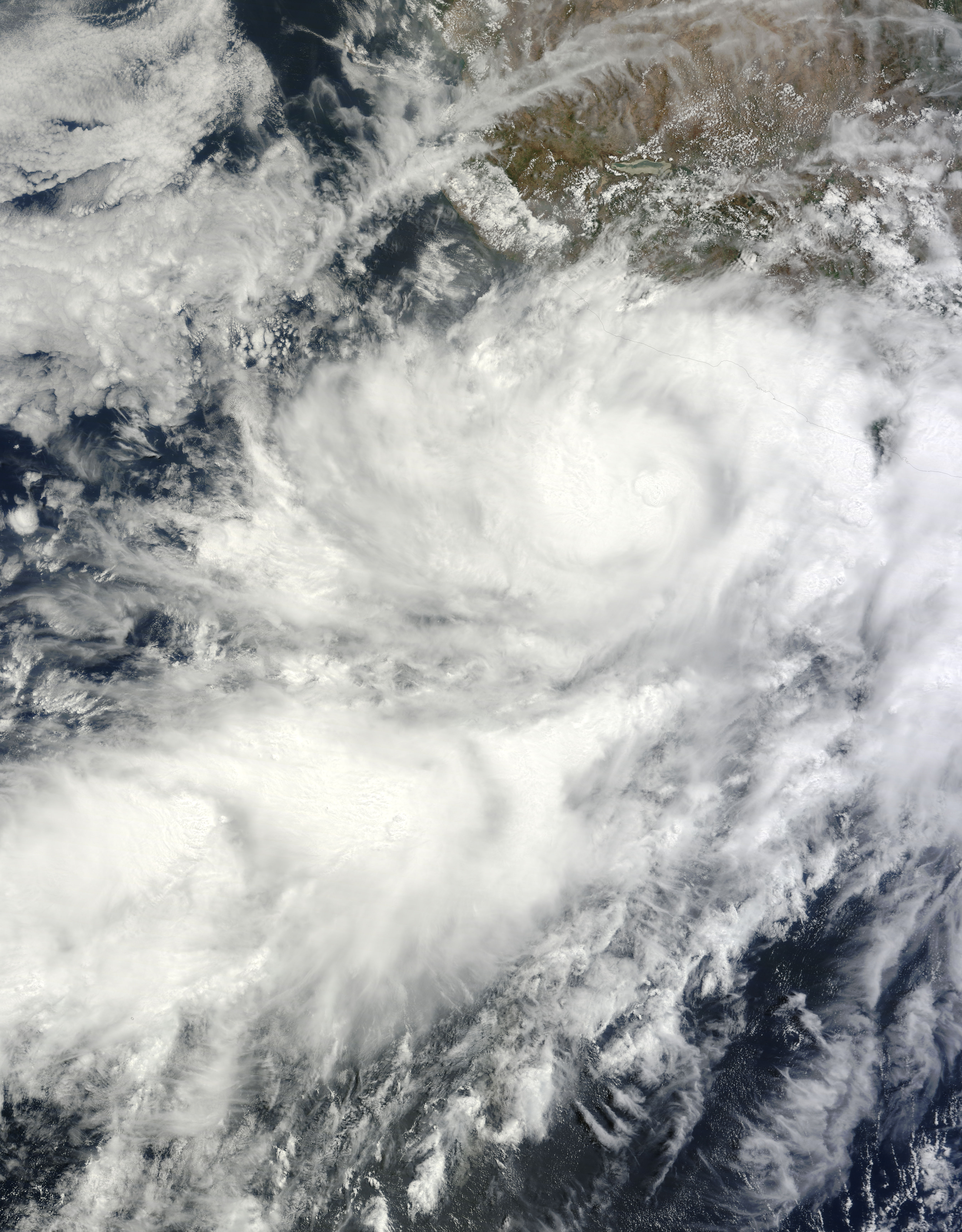 Tropical Storm Beatriz.